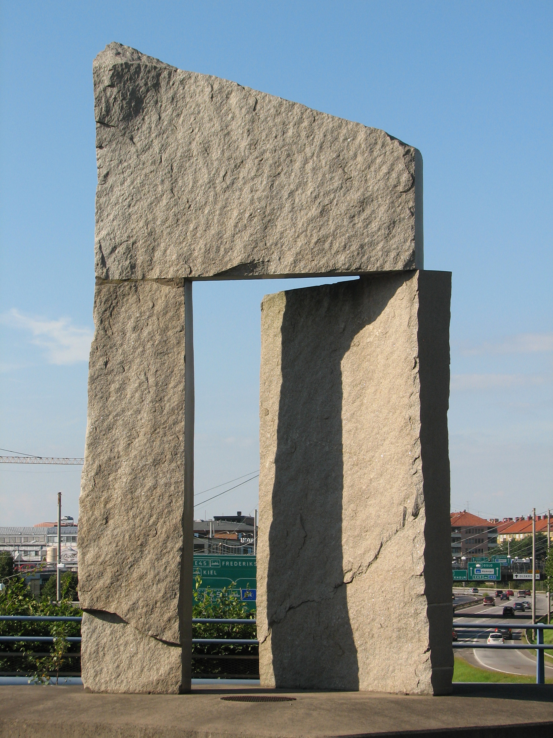 The sculpture "Södra porten" (The southern gate) by Claes Hake, placed near Ullevi stadium and E6 highway in Göteborg, Sweden.